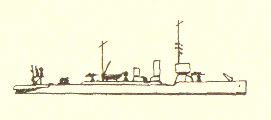 Danish Torpedo boat Springeren, refitted as minesweeper.